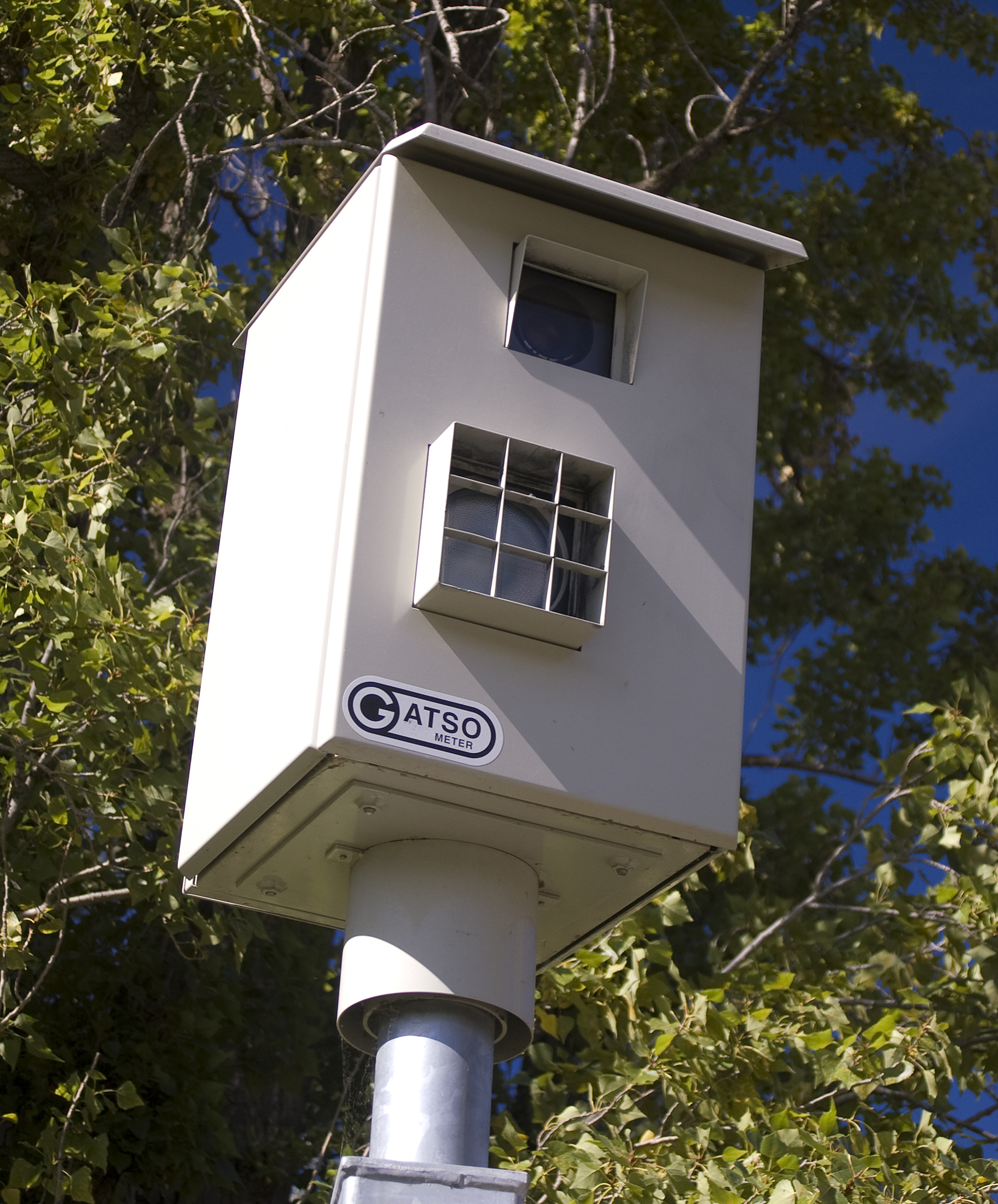 Gatso Meter speed camera in Canberra, Australian Capital Territory.